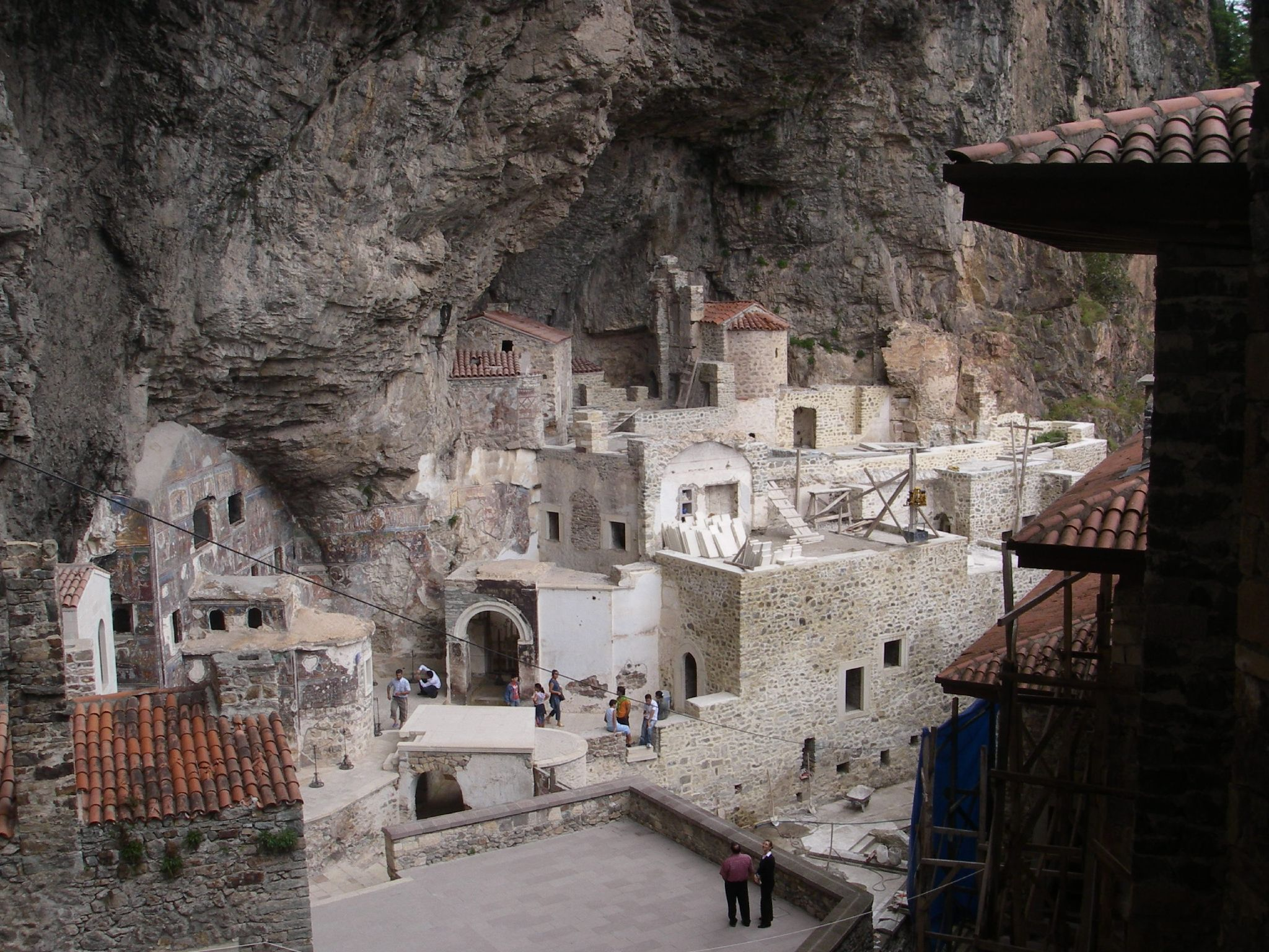 Sümela Monastery, Trabzon Province, Turkey.Sumela